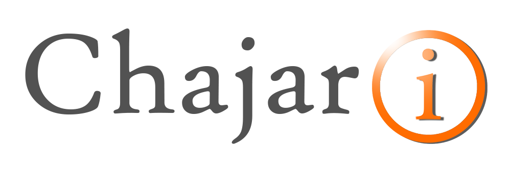 Tourist Information Chajarí City, Entre Rios, Argentina.